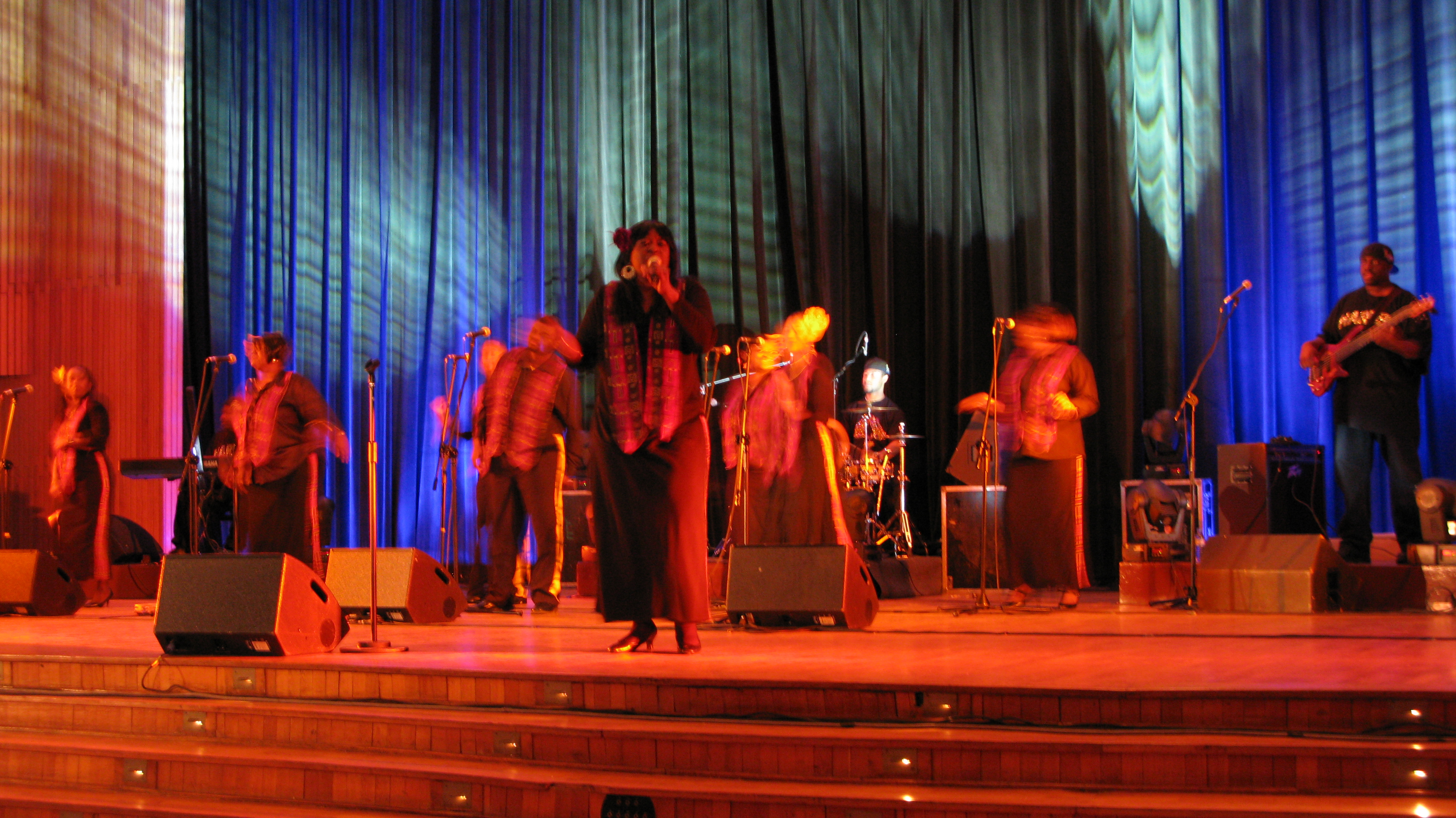 Harlem Gospel Choir at concert in Toruń, Poland